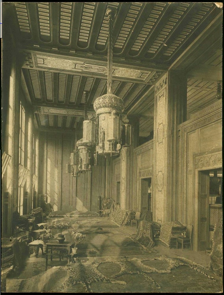 carpets room in the department store of Leonhard Tietz AG at Düsseldorf, built 1907-1909, designed by Joseph Maria Olbrich